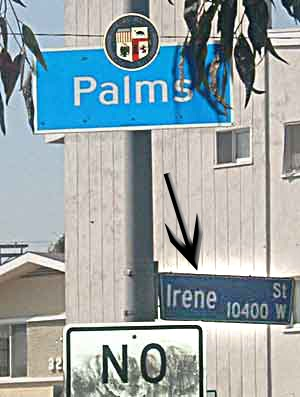 Photo by George Garrigues made on September 2, 2006, and uploaded by him. The photo shows a Palms boundary sign in conjunction with an Irene Street sign (goes with section of Palms article stating this areas is part of the Palms community).